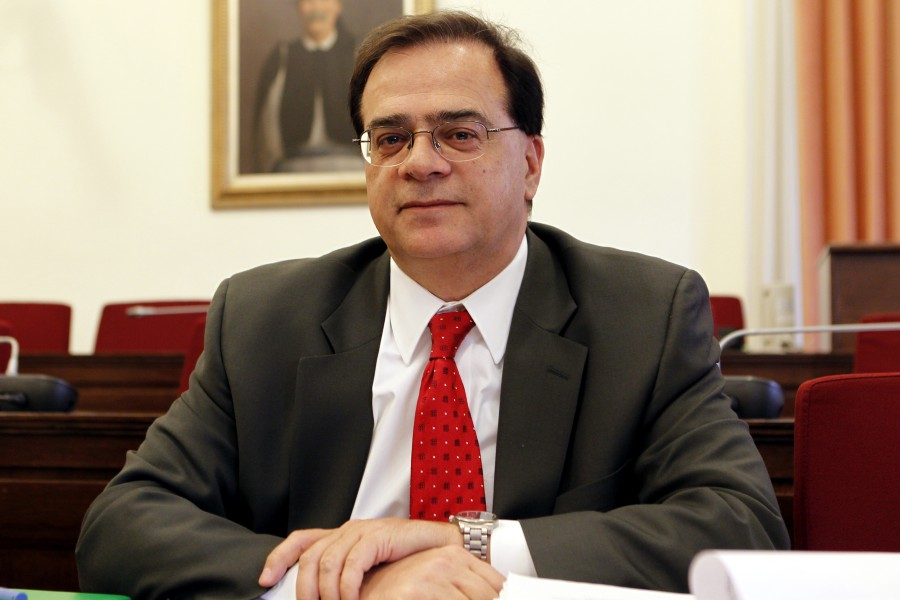 The greek minister of Economics Gikas Hardouvelis - the different crop from the source is because it is from the preview of the article